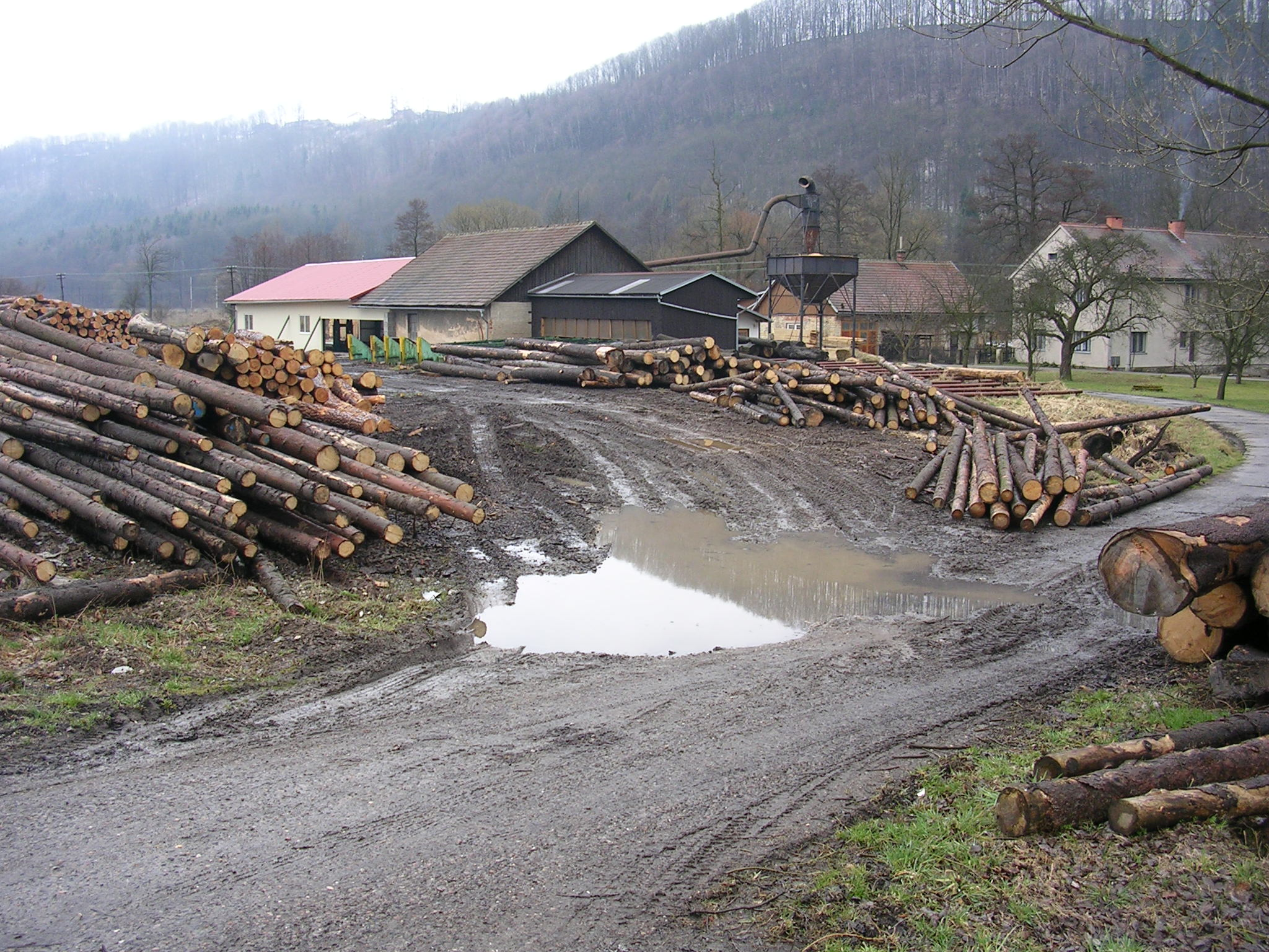 The sawmill in Perná, Orlické Podhůří, the Czech Republic.